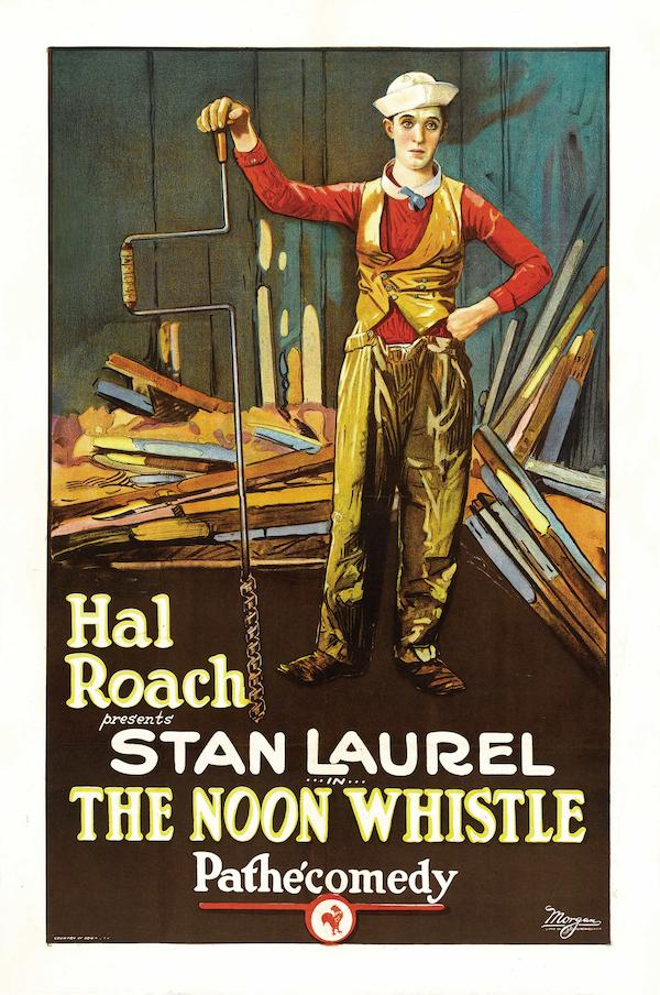 The Noon Wistle poster.